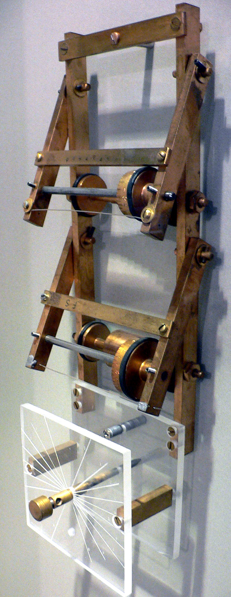 The FERMIAC in the Bradbury Museum, Los Alamos, NM